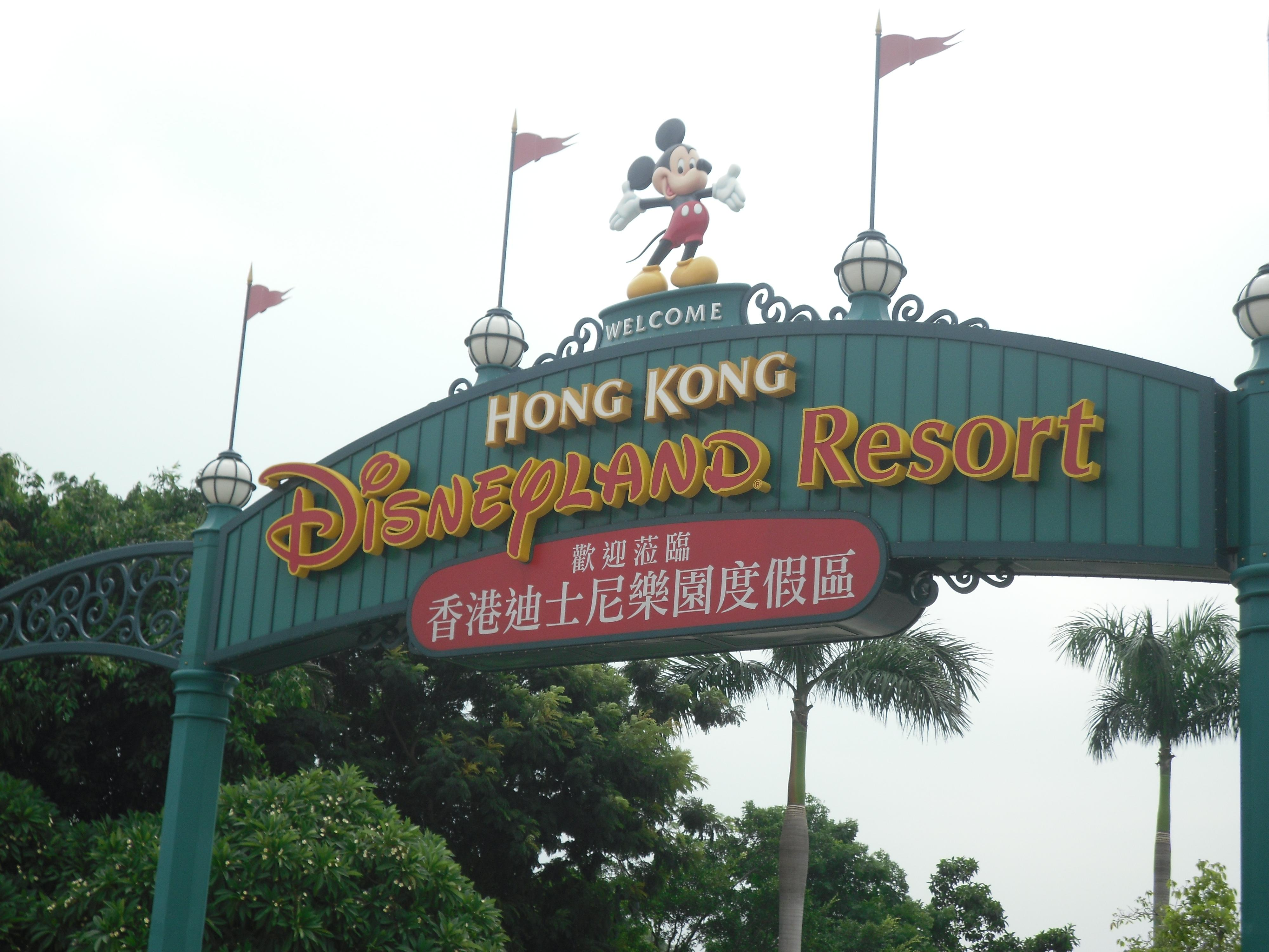 Entrance Hong Kong Disneyland